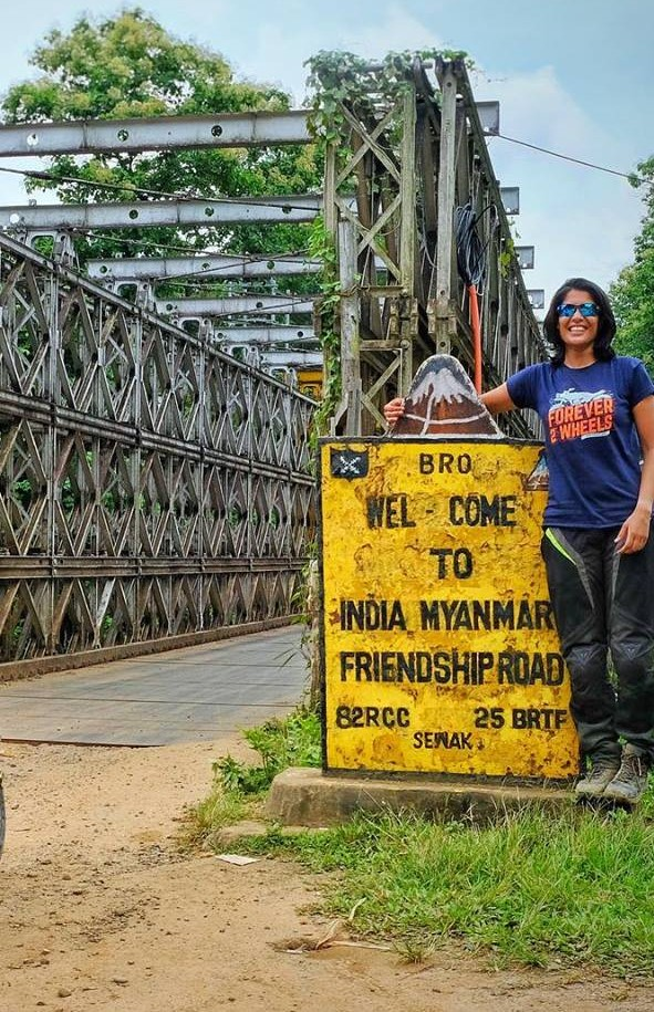 Picture before entering Myanmar